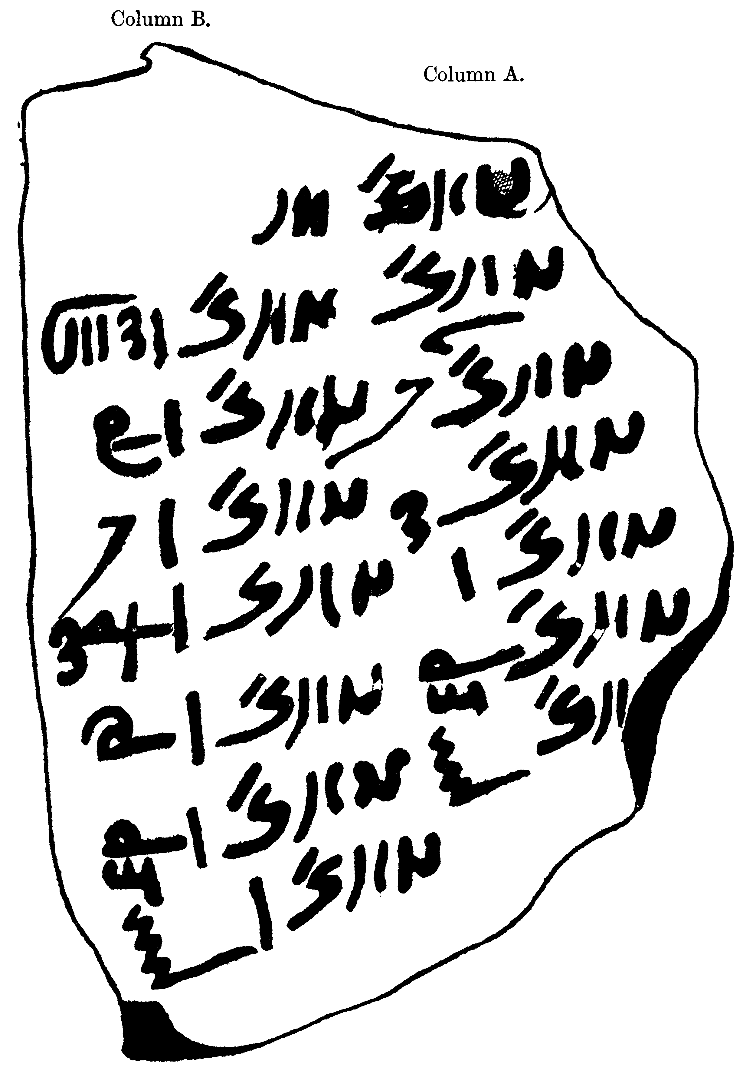 Demotic ostracon giving the conjugation in the preterite active and passive of the phrase "What ... said." Hand copy by Dr. Reich.